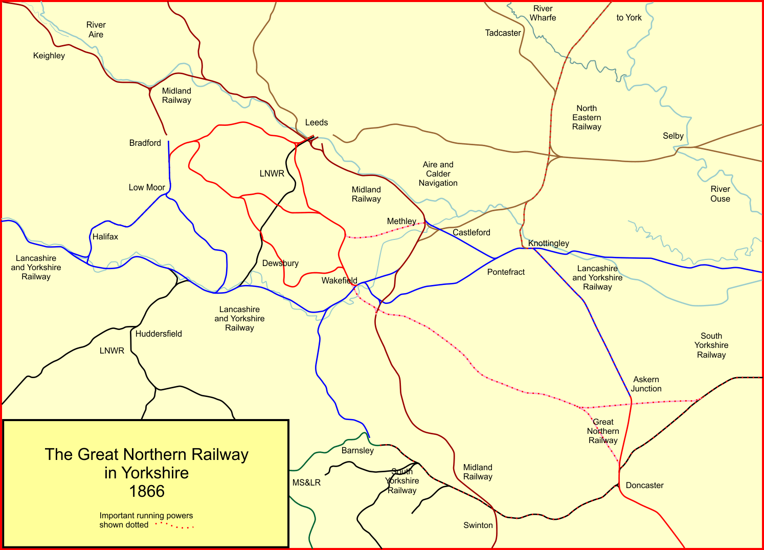 System map of the Great Northern Railway in Yorkshire, England, in 1866